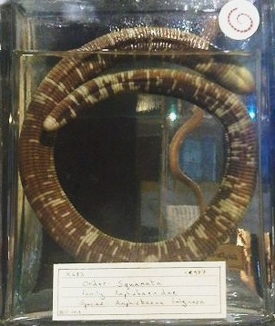 Black-and-white Worm Lizard, Speckled Worm Lizard or Spotted Worm Lizard (Amphisbaena fuliginosa) in Grant Museum of Zoology, London, England.